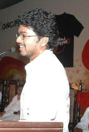 Actor Vijay at a function in 2007